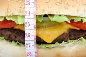 Fast Food has been accused as a primary factor for rising obesity rates in China